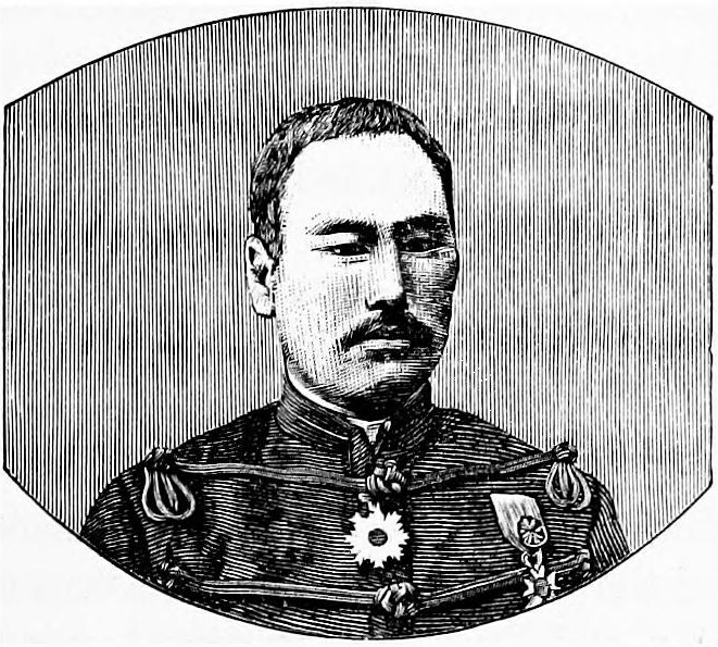 Major-General Hasegawa